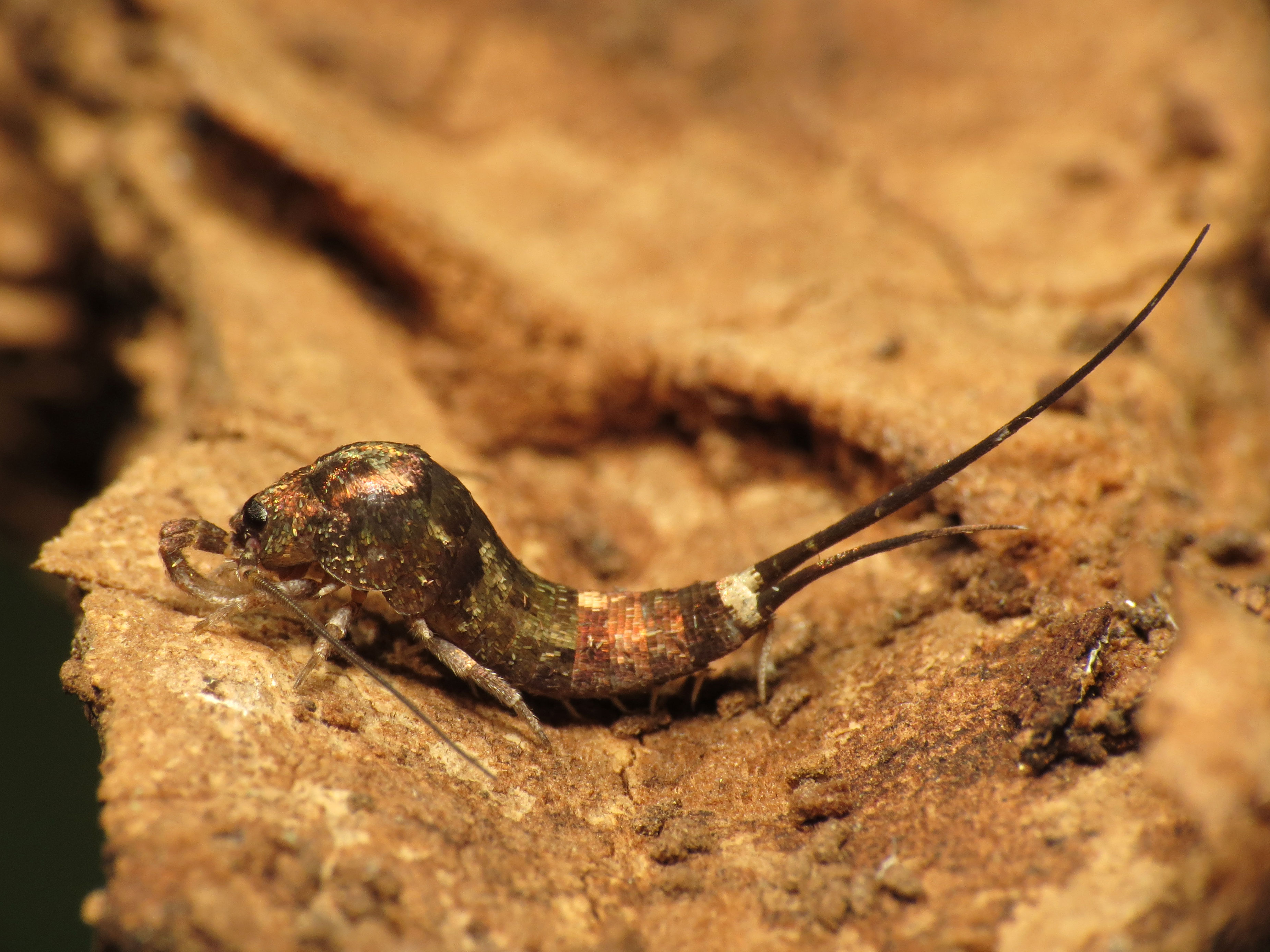 Archaeognatha. Rock Creek Park, Washington, DC, USA.